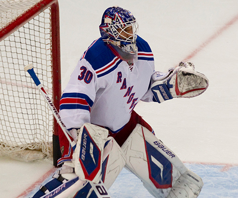 Henrik Lundqvist plays against the New York Islanders on Nov. 15, 2011